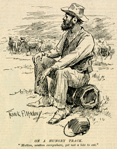 ‘On a Hungry Track’ by Frank Mahony. Reproduced from The Bulletin, 1 August 1896, p. 11. The tramp is seating on Matilda - a romantic term for a swagman's bundle; also see: Waltzing Matilda